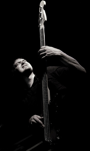 Bradley Grace performing in Italy C. 2010